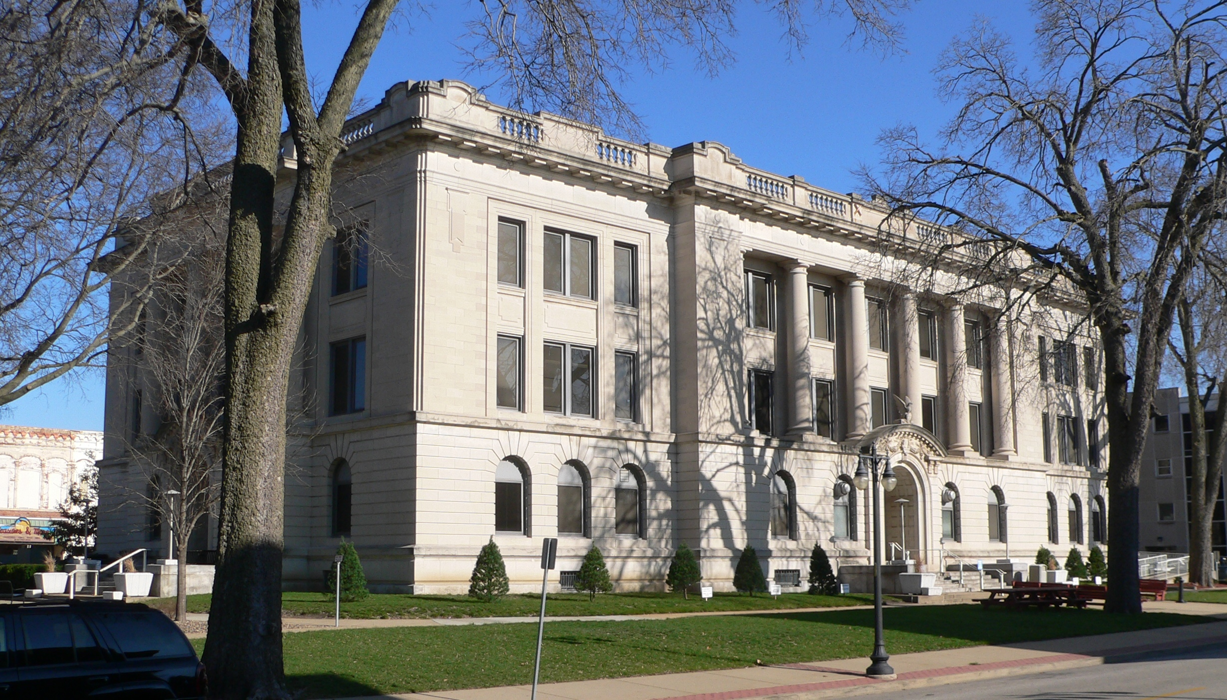 Tazewell County, Illinois courthouse, occupying most of the block between 4th and Capitol and between Elizabeth and Court Streets in Pekin, Illinois. The building's long axis runs northwest-southeast (parallel to Elizabeth and Court). View in the photo is from the southwest (from Capitol).